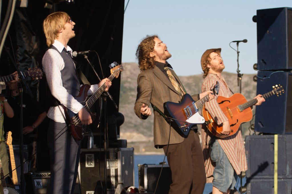 the band Real Ones in concert